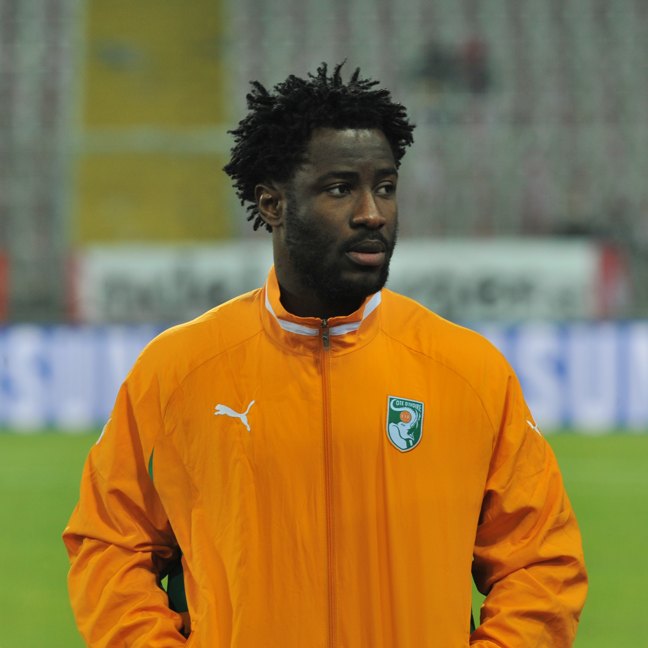 ÖFB freundschaftliches Länderspiel - Österreich vs Elfenbeinküste am 14. November 2012 The making of this work was supported by Wikimedia Austria. For other files made with the support of Wikimedia Austria, please see the category Supported by Wikimedia Österreich. Elfenbeinküste Nr. 12: Wilfried Bony